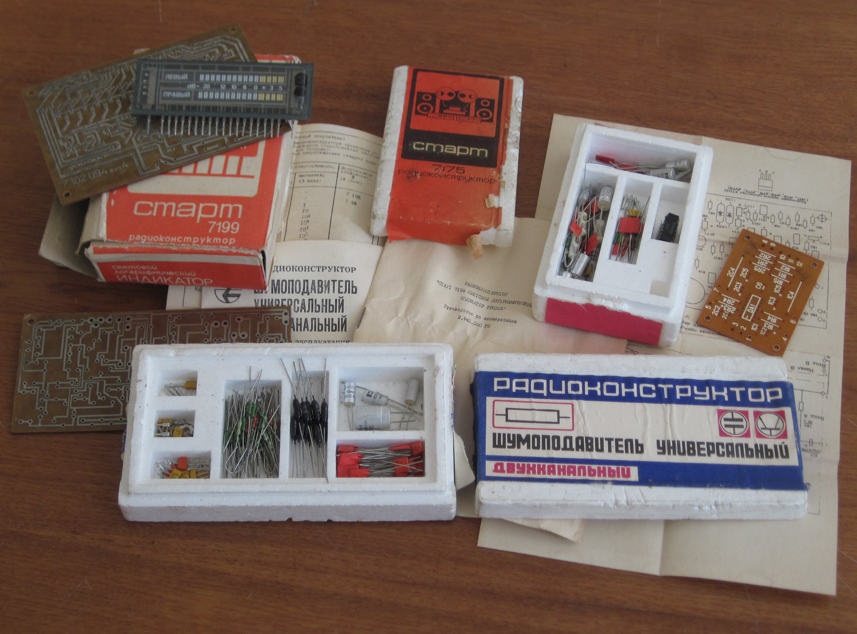 START family electronic kits, USSR, 1980s